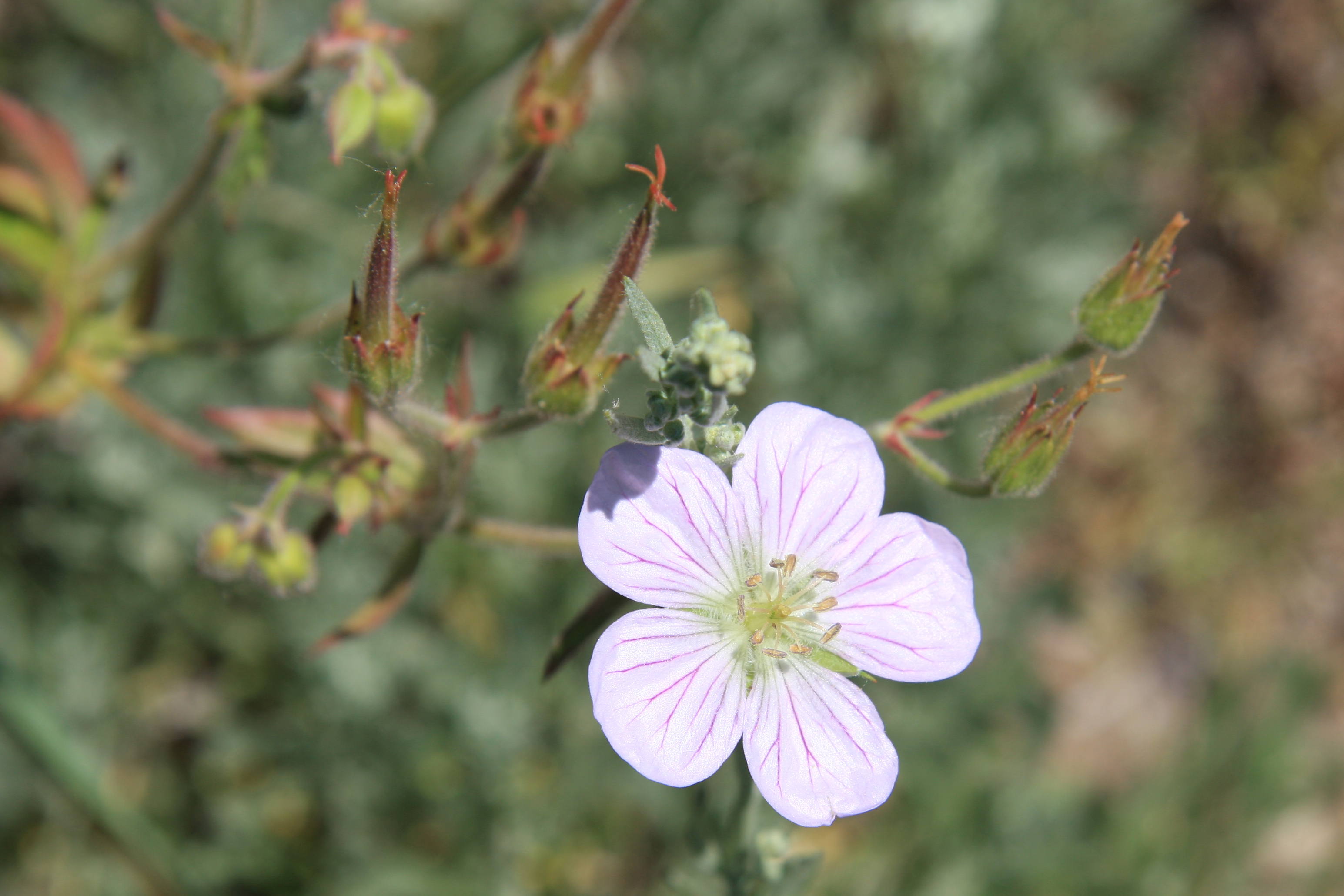 Richardsons geranium (Geranium richardsonii), closeup of flower and seedpods. At about 9000ft along High Trail (part of Pacific Crest Trail) above Agnew Meadows, Ansel Adams Wilderness, California.